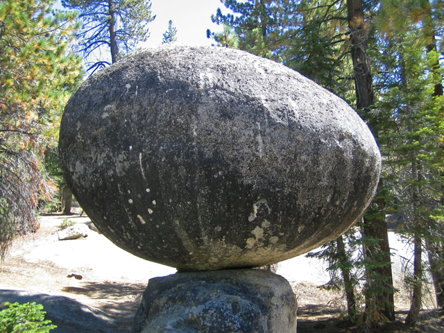 Globe Rock (2005)